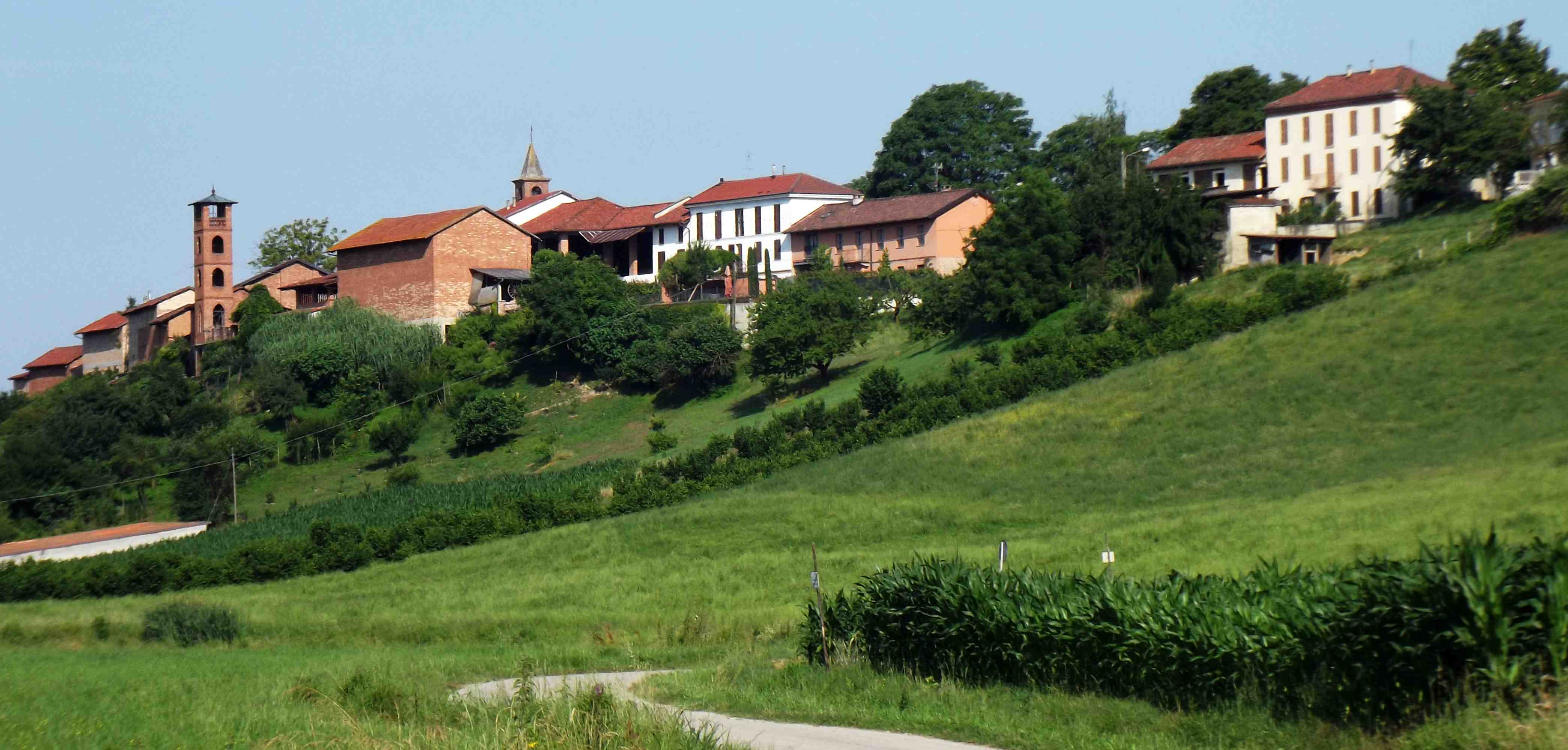 Vaglierano (Asti, Italy): panorama